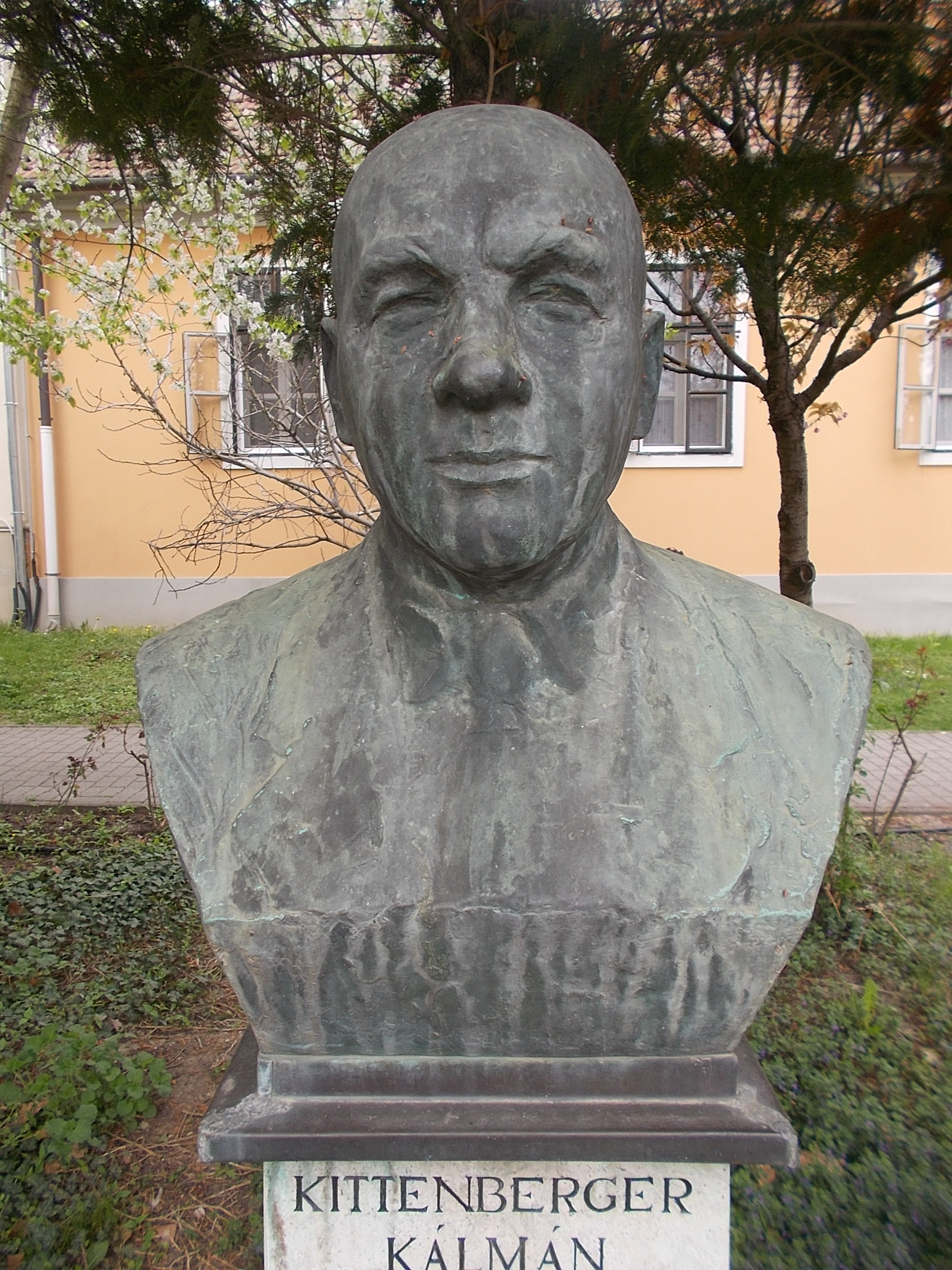 The big/famous hunter, Kálmán Kittenberger by István Kamotsay (1971 bronze bust and a lion relief on the limestone base, Erected by the hunting association and the hunting club of Nagymaros in 1971 during the World Hunting Exhibition.) - Fő square, Nagymaros, Pest County, Hungary.